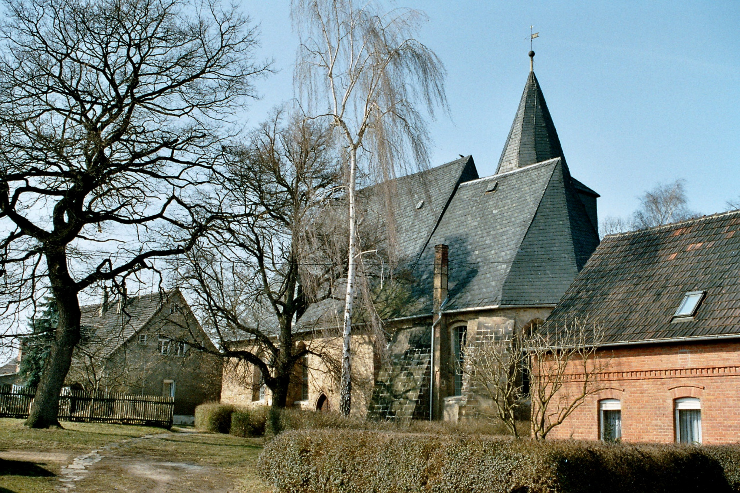 The village church in Voigtstedt